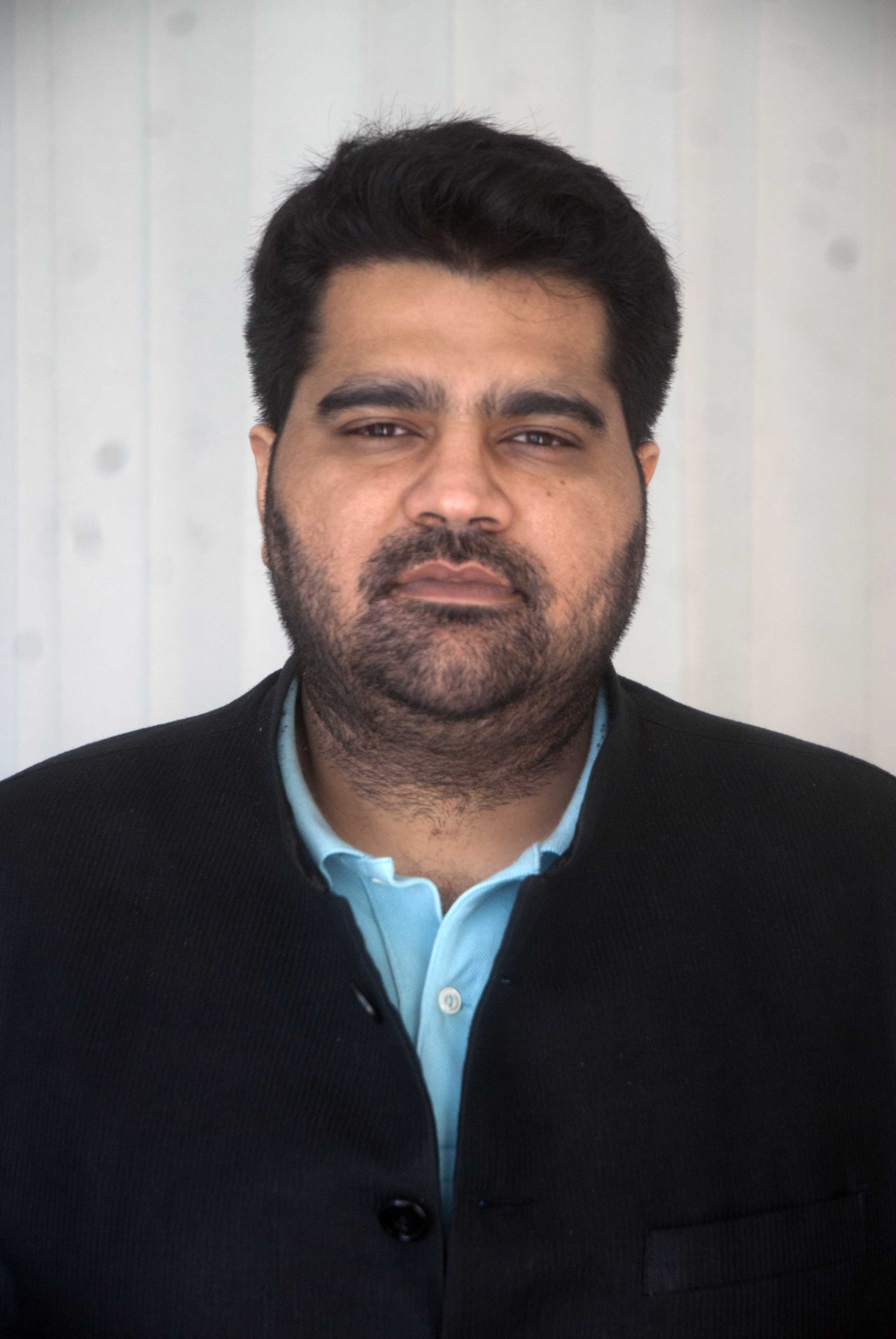 This is image for Kartikeya Sharma Wikipedia page.